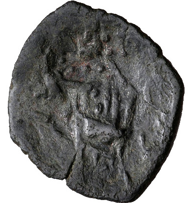 Coin of Basil of Trebizond. Basil standing facing, holding scepter and globus.